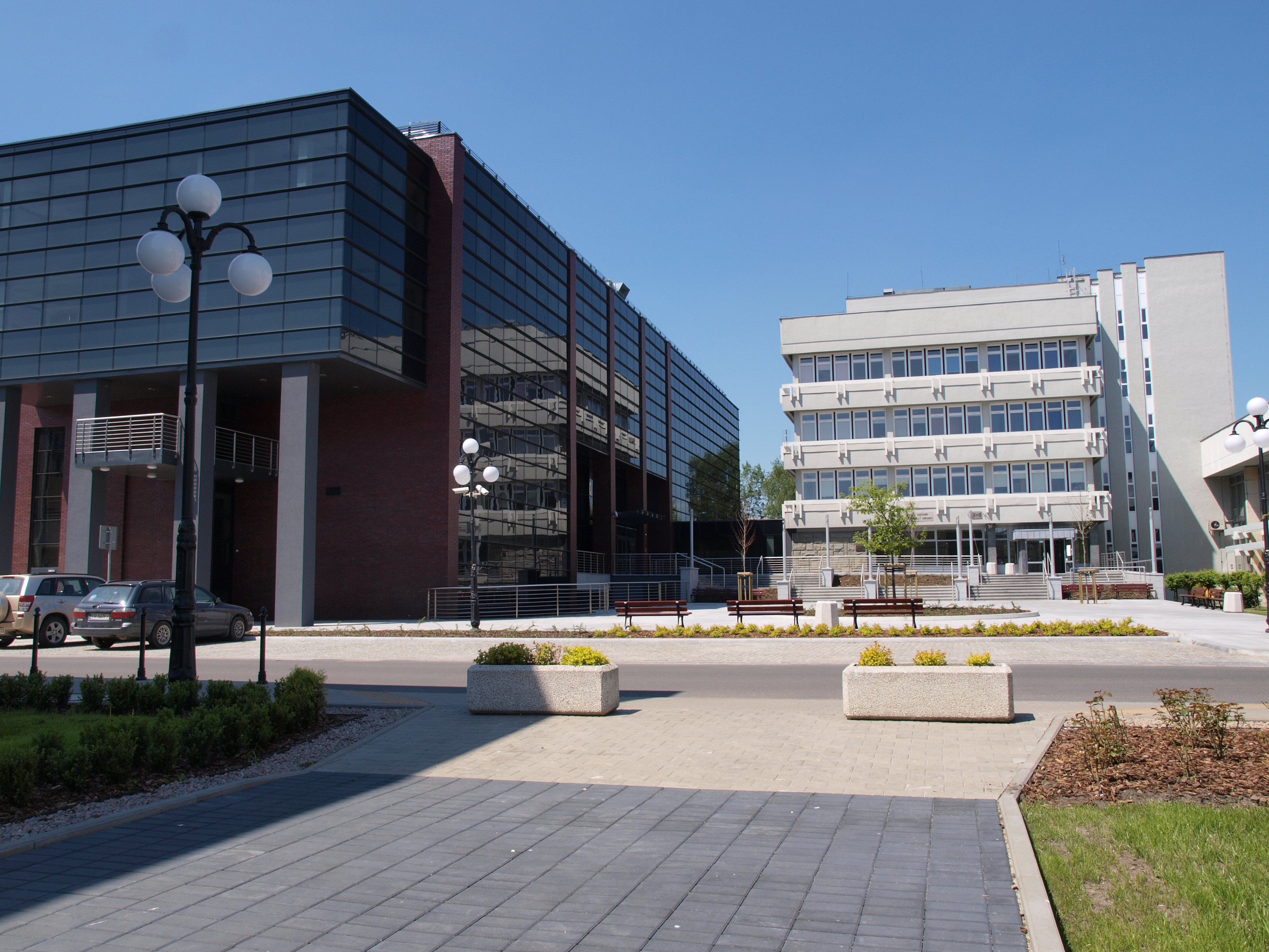 Buildings of Ceramics Faculty at AGH University of Science and Technology in Kraków.